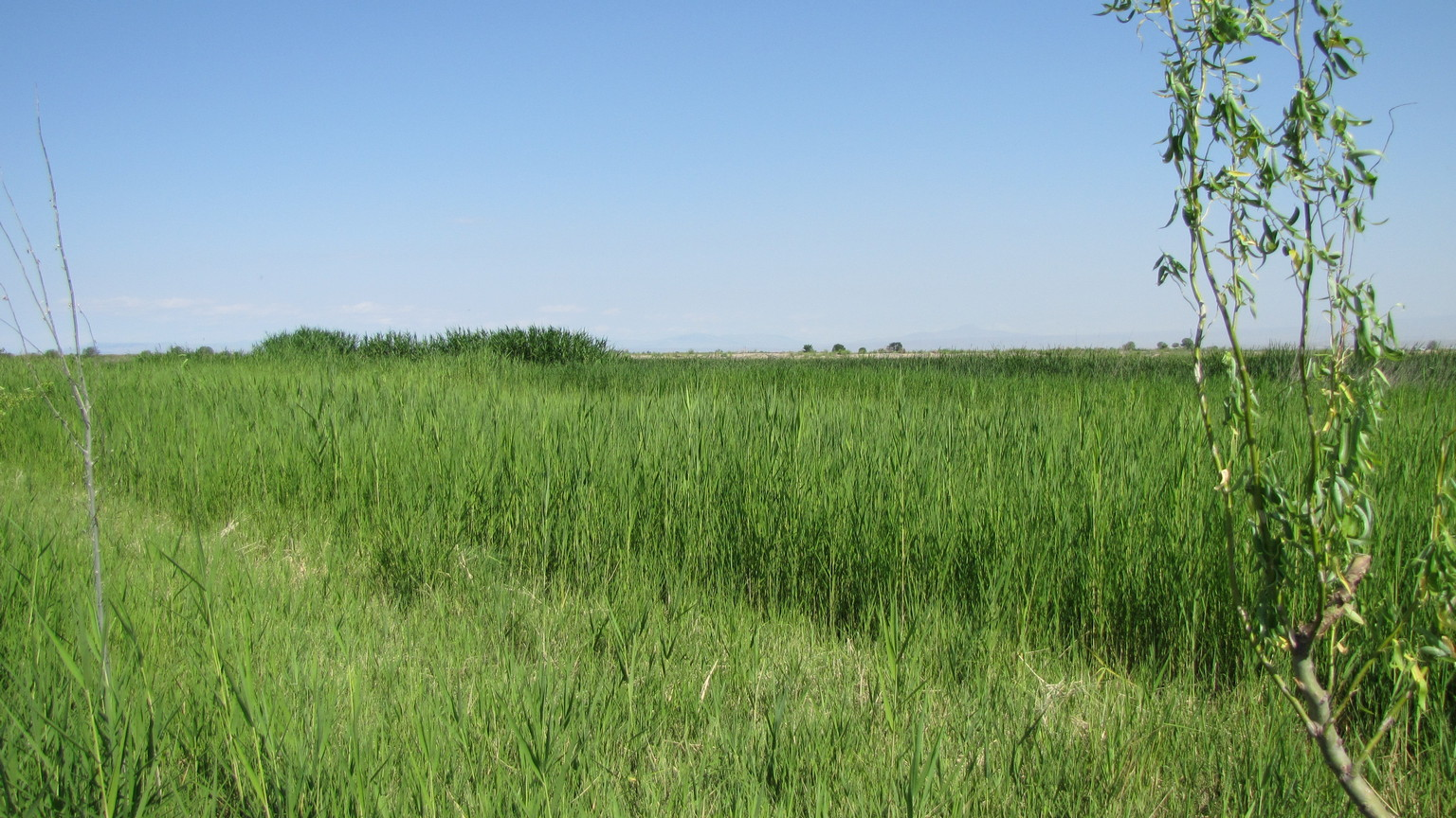 Metsamor Important Bird Area, Wetlands covered by reed